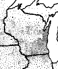 Distribution of Milk produced in Wisconsin in 1929. One dot on source image equaled 1,000,000 gallons of milk